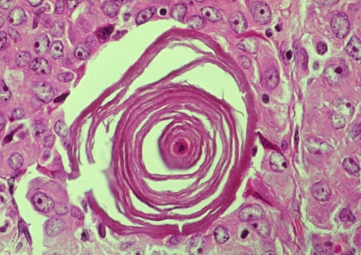 THYROID GLAND: PSAMMOMA BODY IN PAPILLARY CARCINOMA There is a single necrotic tumor cell in the center of this structure that probably acts as the nidus for its formation. Despite the label, this photo appears to be a squamous pearl in a squamous carcinoma, without the calcification required of a psammoma body.